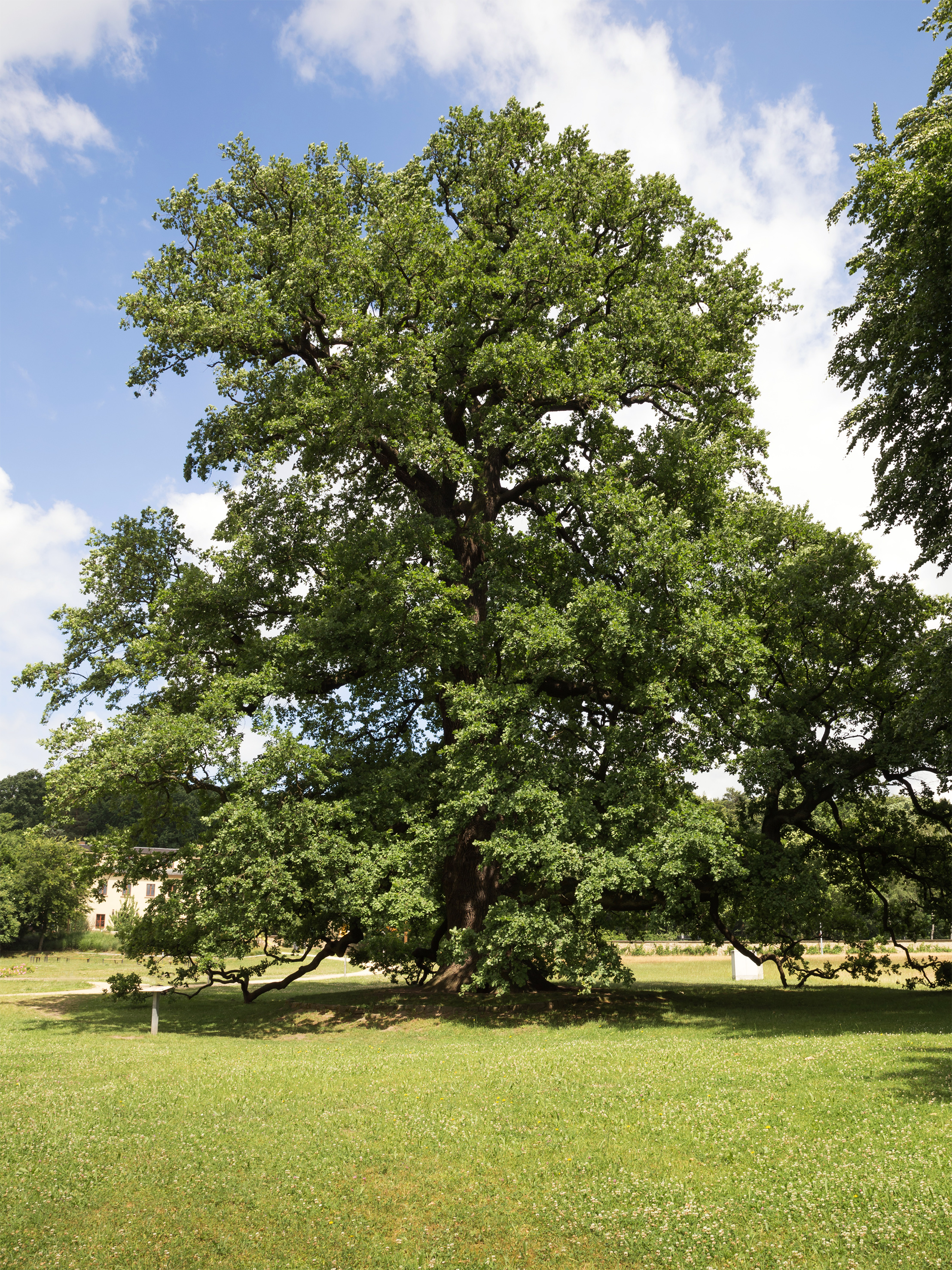 Oak in the palace garden in Graupa, about 350 years old